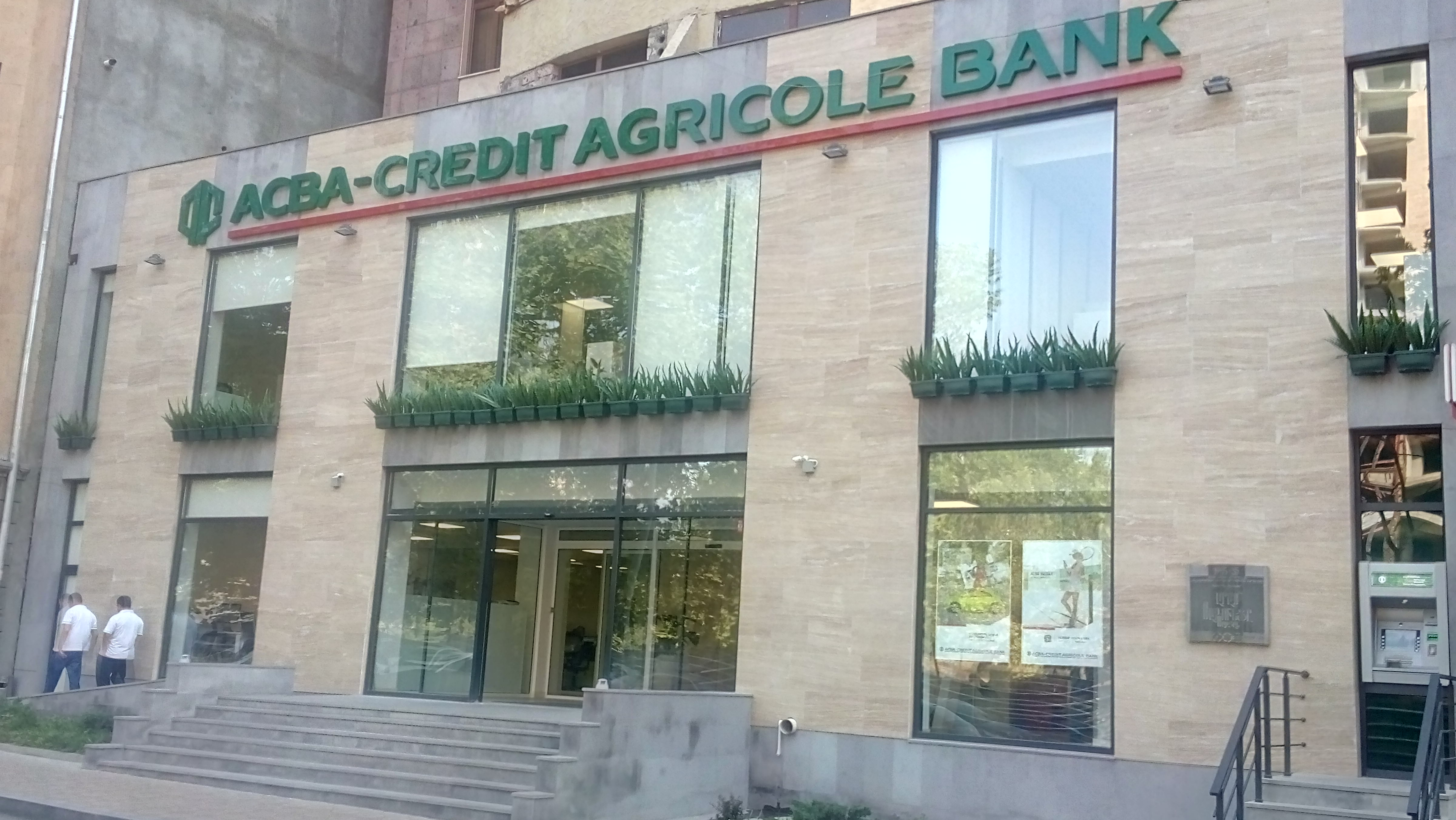 ԱԿԲԱ-ԿՐԵԴԻՏ ԱԳՐԻԿՈԼ ԲԱՆԿ Գլխամաս